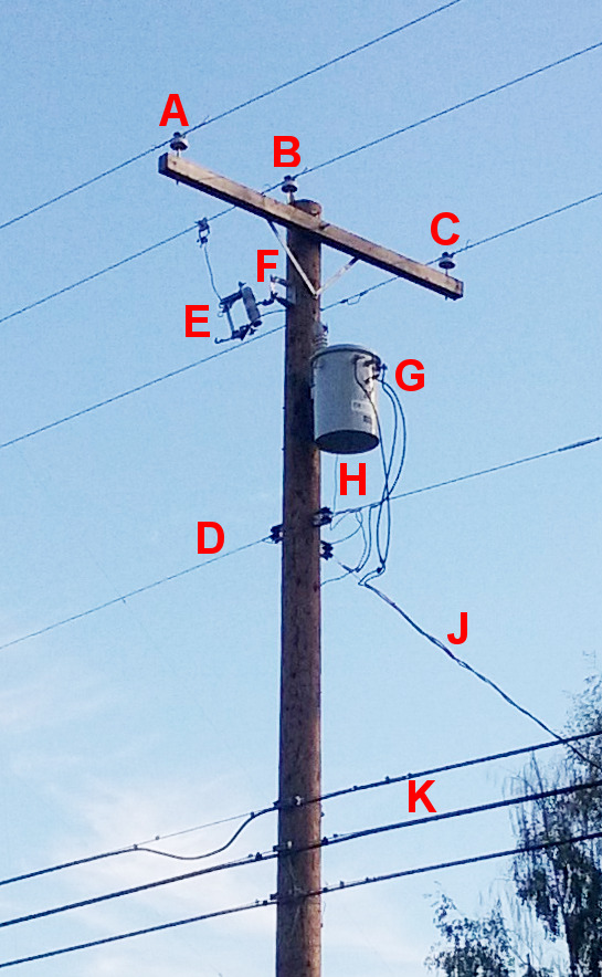 A typical utility pole in North America, showing the hardware for a residential 120/240V split phase service drop. The labeled parts are: A,B,C - The high voltage primary distribution wires; power is transmitted using the three phase system with 3 wires carrying 60 Hz alternating current with phases 120° apart. The wires are supported by standoff insulators on the crossarm, to which they are tied with tie wires. D - The neutral wire, which is grounded. This is a "Y" connected distribution line, with the distribution transformers connected between a phase wire and this neutral wire. E - Fuse cutout which disconnects the transformer from the line in the event of an electrical fault. It can also be opened manually. F - Lightning arrestor conducts voltage spikes due to lightning strikes and other transient events to ground. G - Single phase distribution transformer. Its primary winding is connected between one of the phase wires and the neutral wire. Its secondary winding is 240V center tapped. The secondary voltage is brought out to the 3 bushings on the side, consists of two 120V phases and one neutral. H - Ground wire from transformer case to neutral wire carries the return current from the primary winding. J - "Triplex" service drop cable carries the secondary current to the residence. It consists of the two opposite 120V phase wires and the neutral, which supports the cable. K - Communications cables, consisting of a telephone and two cable television lines.